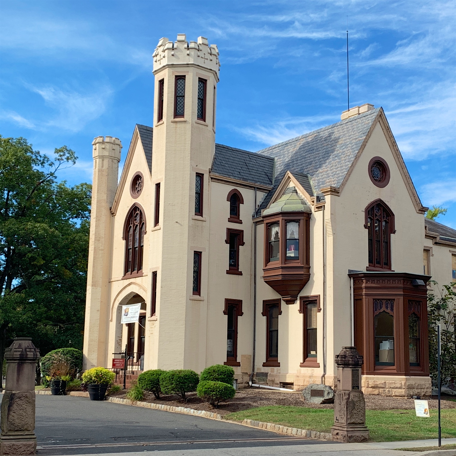 The Daniel Robert House and entrance gates in Somerville, New Jersey. Serves as the Somerville Borough Hall and the Somerville Public Library.